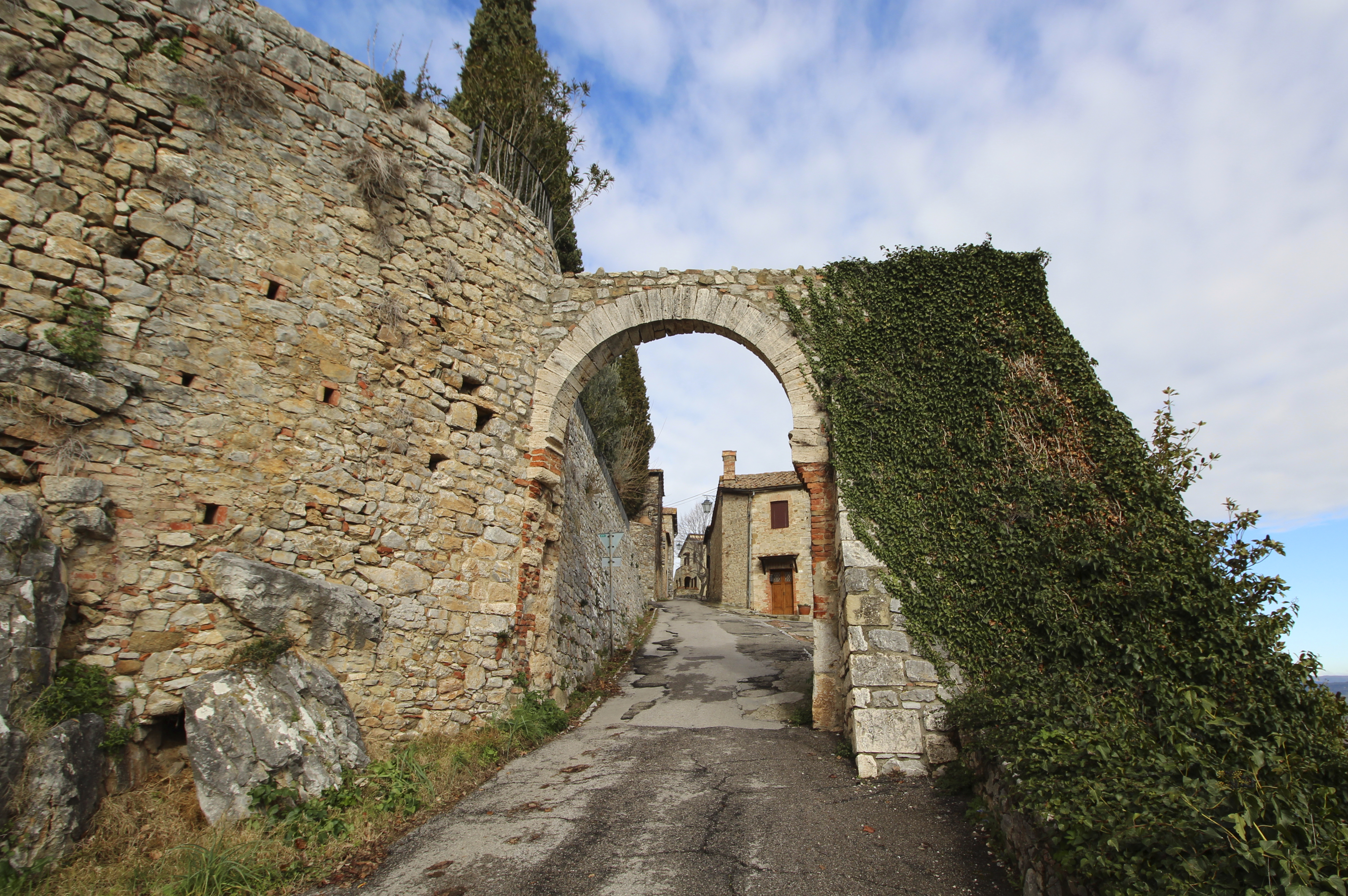 Defensive gate Porta Senese, Rocca d'Orcia, hamlet of Castiglione d'Orcia, Val d'Orcia, Province of Siena, Tuscany, Italy